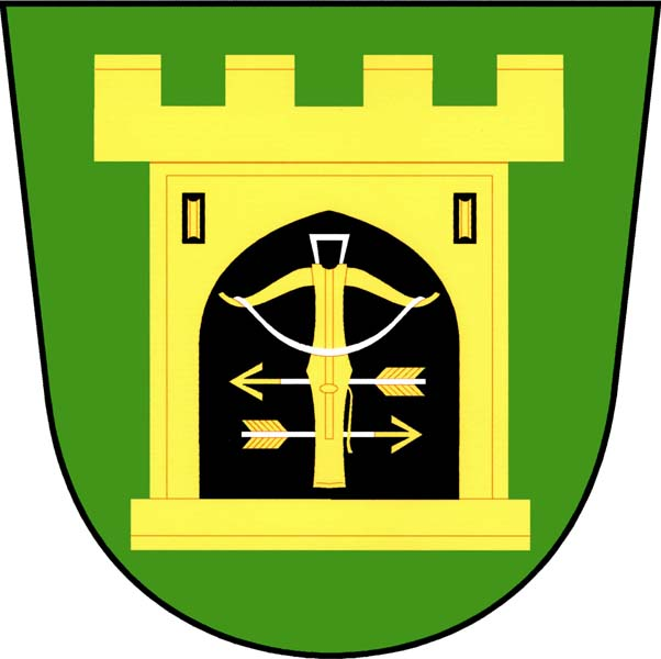 Coat of amrs of Lazsko , District Příbram, Czech Republic